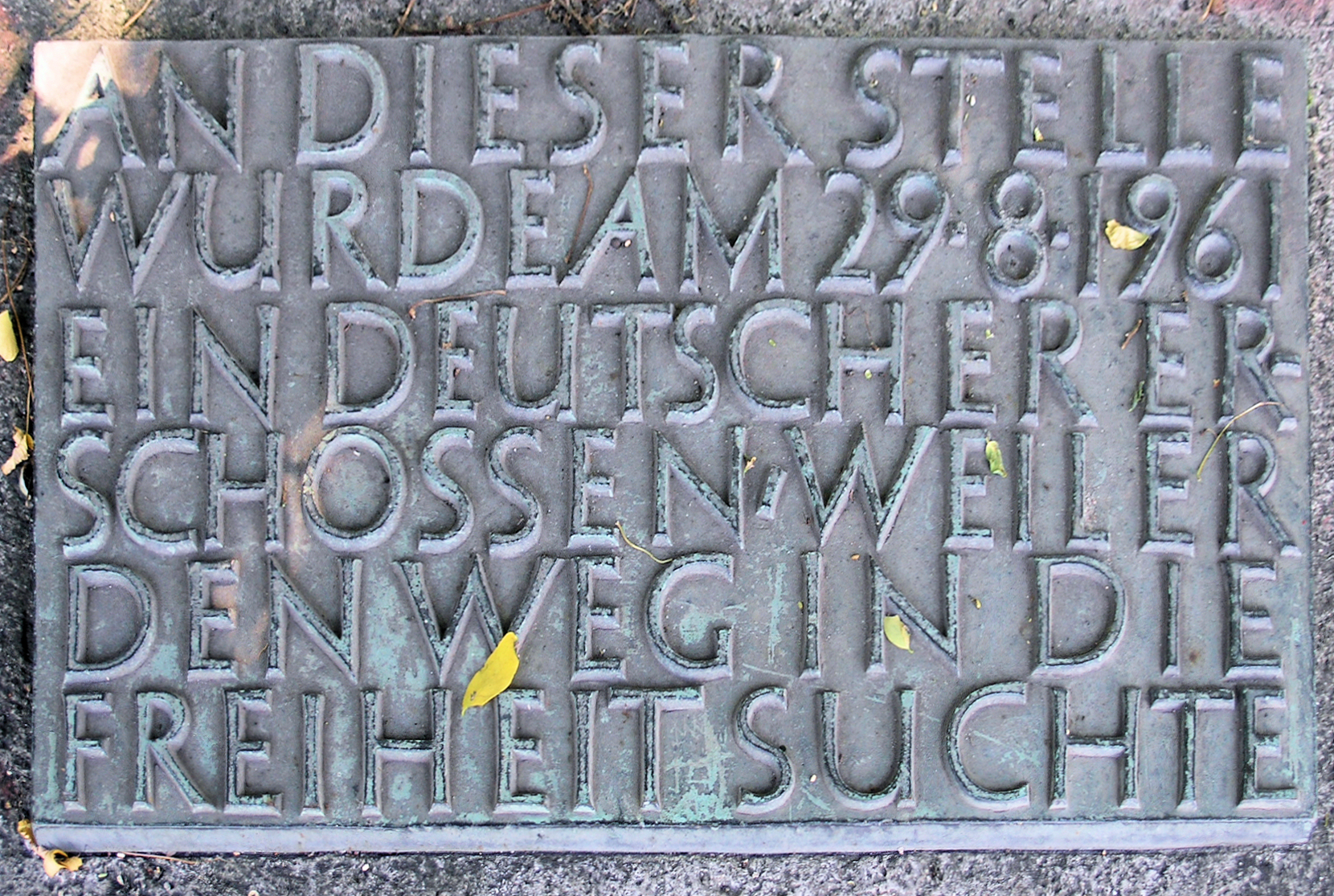 Memorial plaque, Maueropfer, Knesebeckbrücke , Berlin-Zehlendorf, Germany